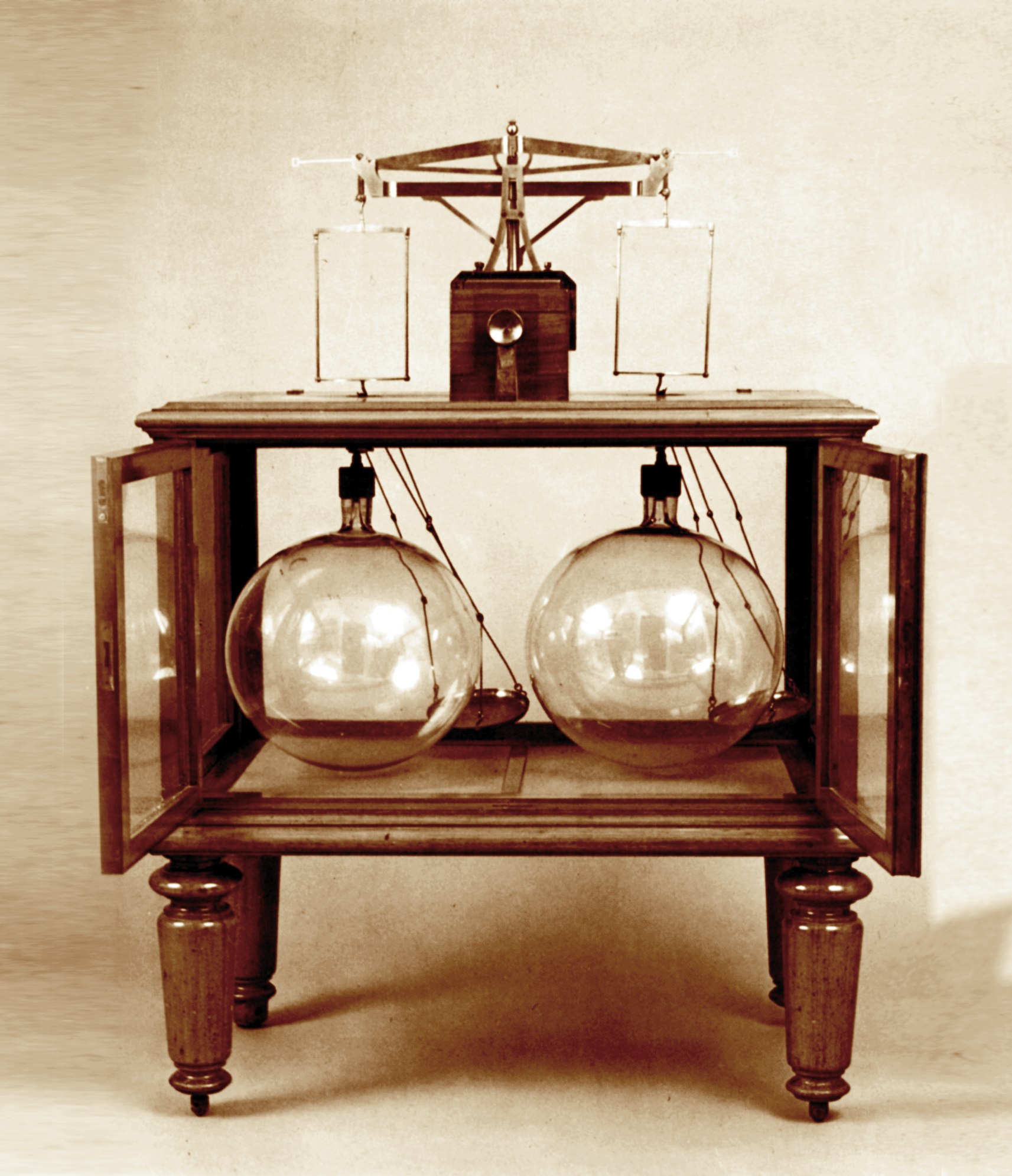 D. I. Mendeleev's design: Weight devices for firm and gas substances.